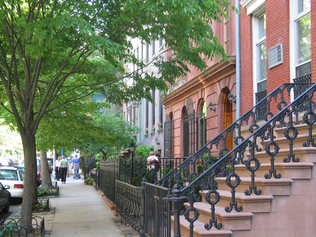 Victorian style West 22nd Street in Chelsea, NYC